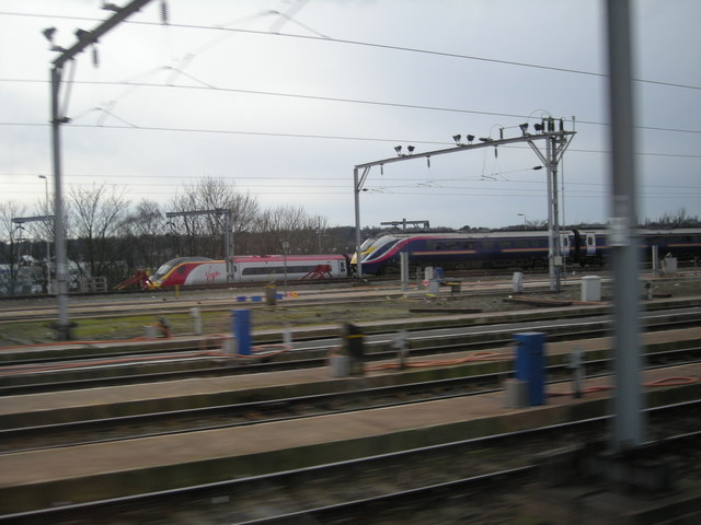 Oxley Motive Power Depot.